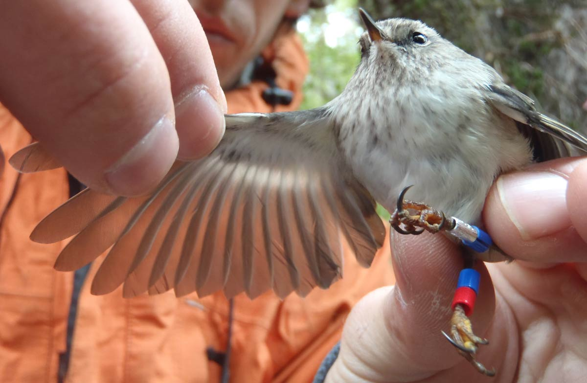 Banded juvenile rifleman, Tennyson Inlet